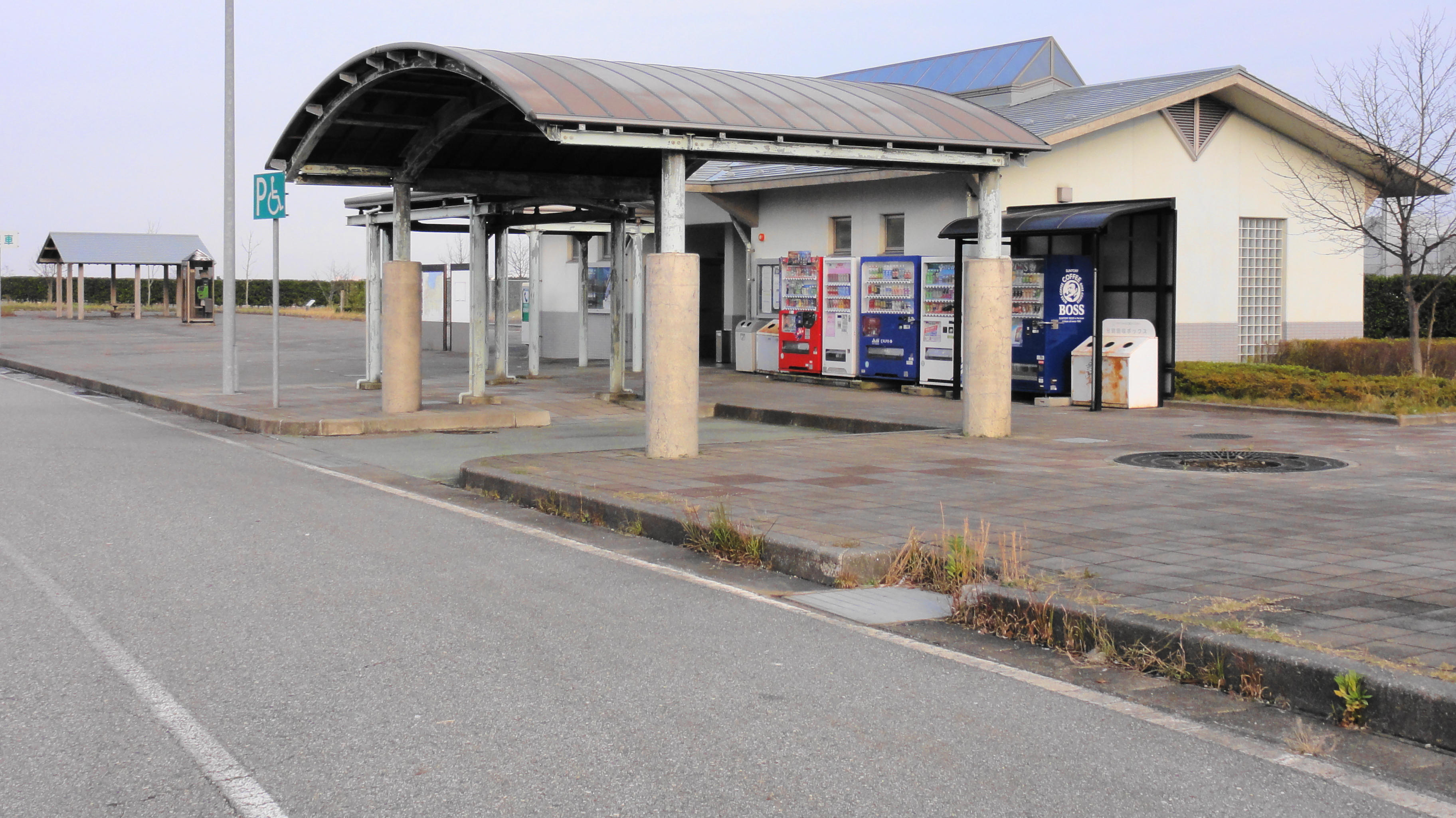 Fukuoka Parking Area,Toyama Prefecture, Japan